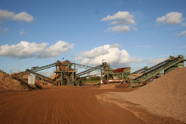 Aggregate extraction works